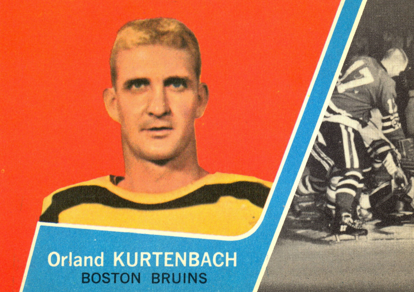 Orland Kurtenbach, Boston Bruins